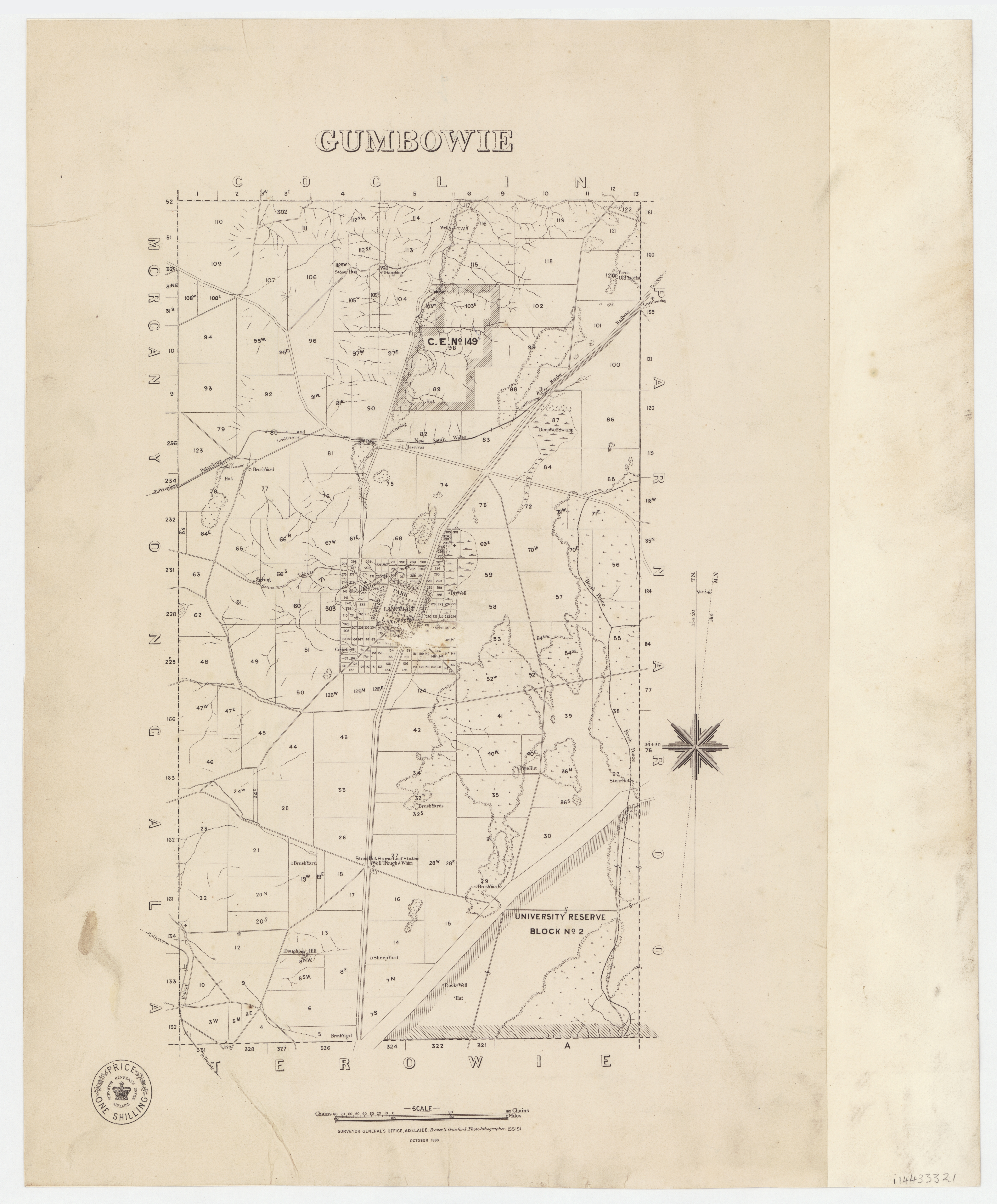 View additional information for this map Filename: map830bje63360_gumbowie1889_ds.jpg